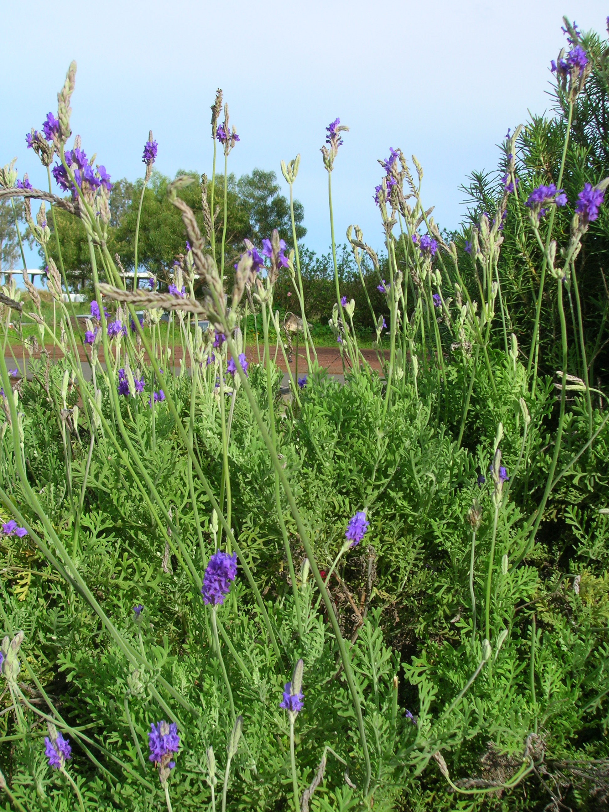 Lavandula multifida (plant). Location: Maui, Ulupalakua